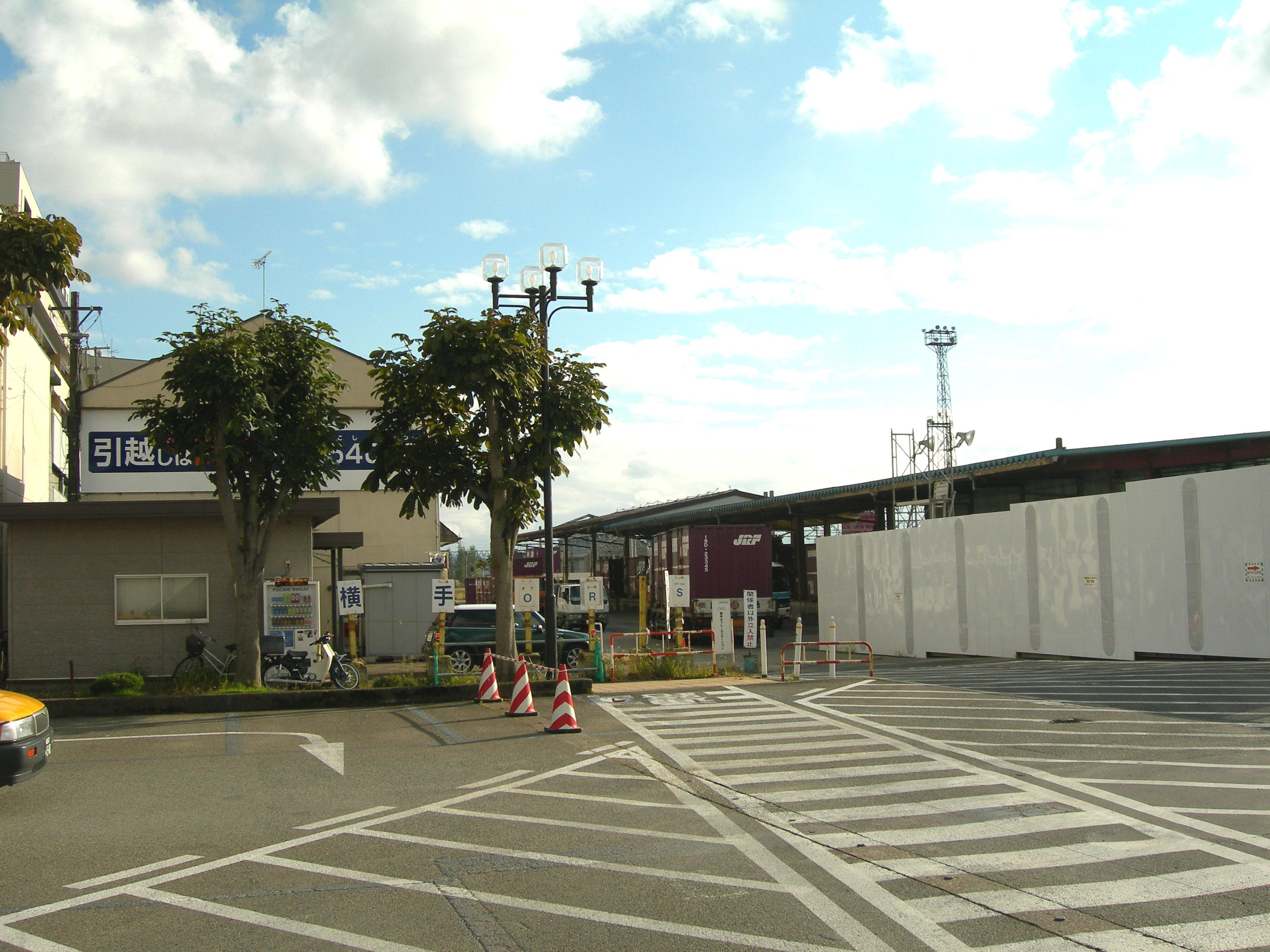 Yokote Of Rail Station